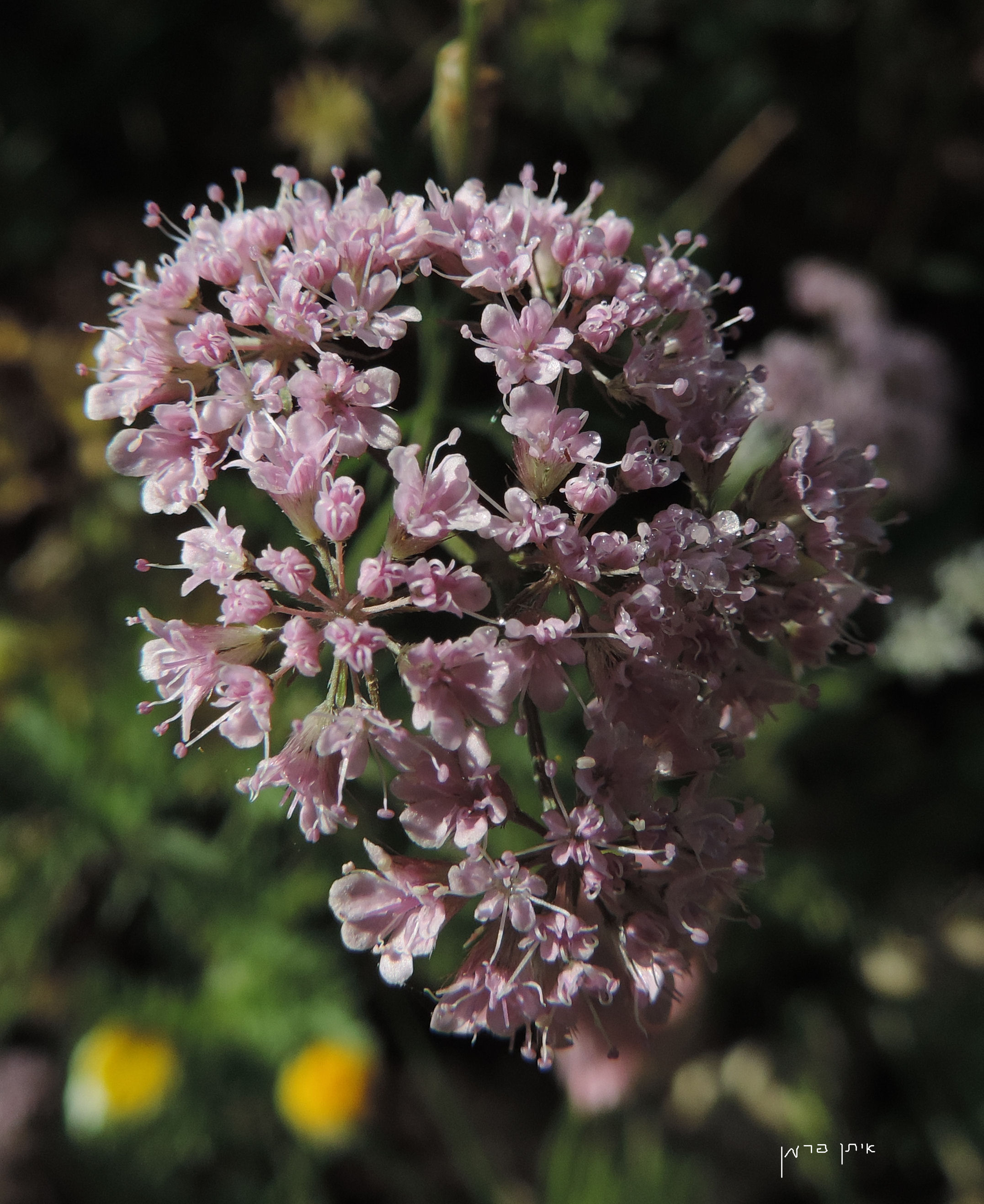 Chaetosciadium trichospermum - Menashe hills